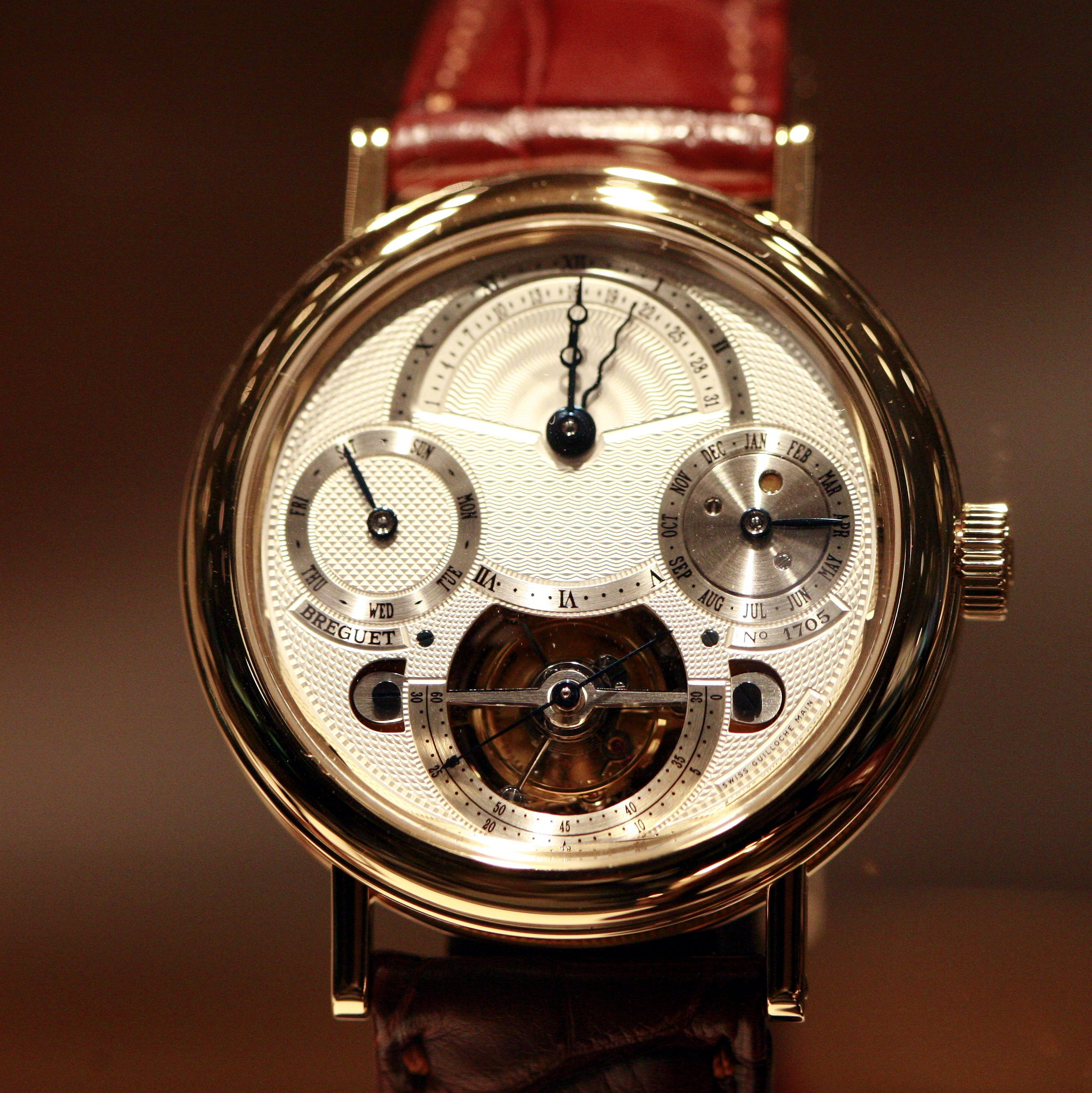 Breguet No. 1705 watch, showing Saturday, April 21, 12:00:25 [unsure whether 12am or 12pm — update if there is a way to tell]